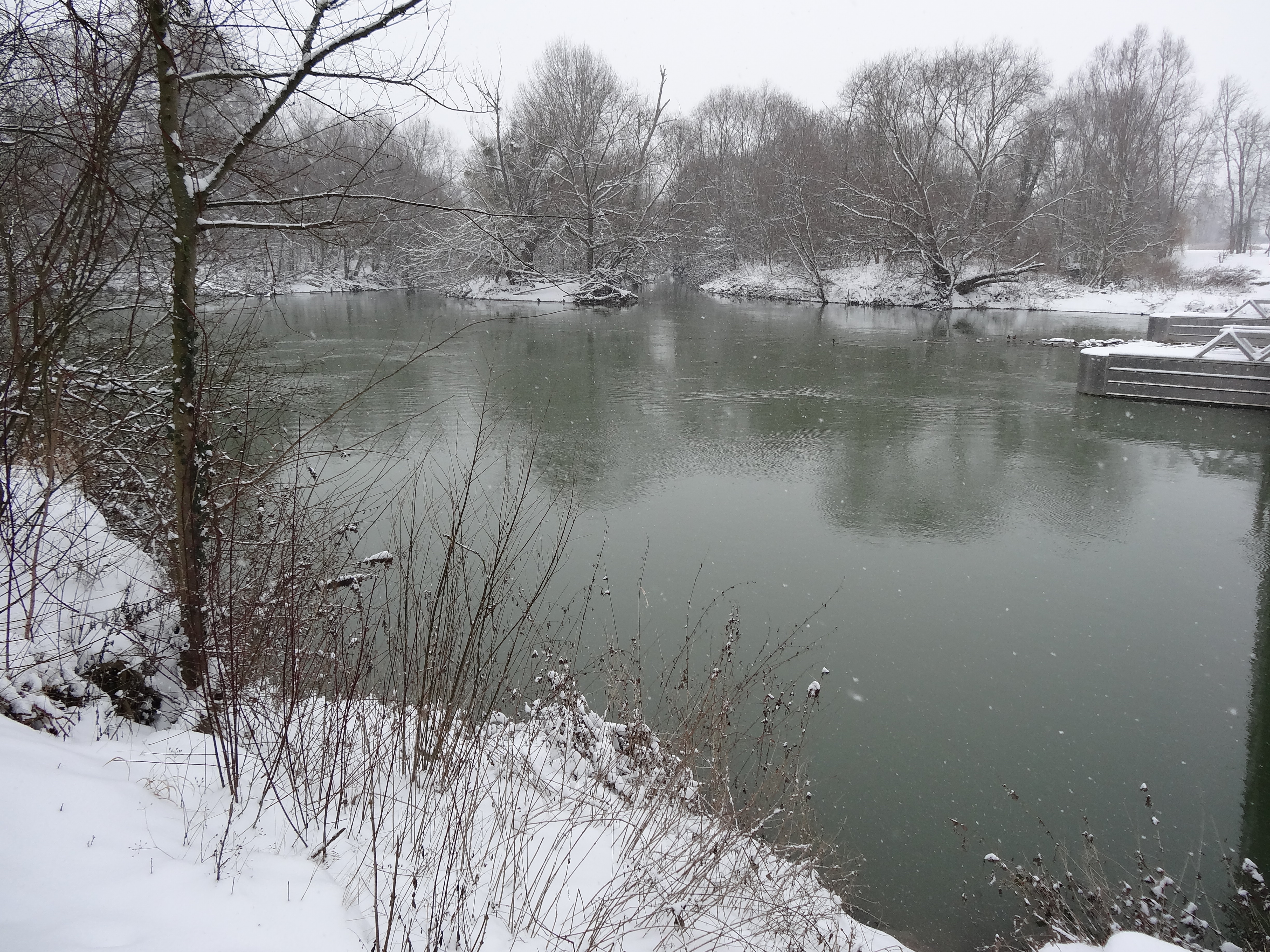 From left to right: Pinsons Island, Colvert Islet, and Cuscutes Island. On river Marne, a tributary of river Seine. East of Paris.